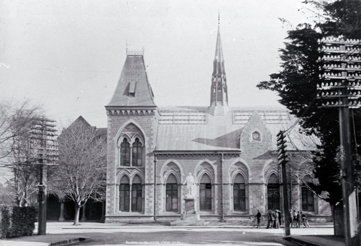 Canterbury Museum and Rolleston statue The Museum, designed by Benjamin Mountfort, was built in 1876. The marble statue was executed by the English sculptor, Herbert Hampton (1862-1929), and was unveiled on 26 May 1906. New Zealand Historic Places Trust Register number: 290.